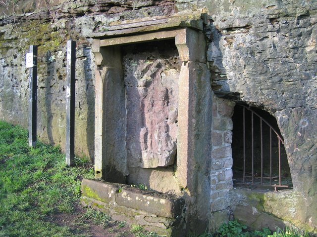 Minerva's shrine in Edgar's Field This Roman shrine, dedicated to Minerva, is in Edgar's Field in Handbridge. It is extremely weathered and has suffered greatly over the last 2000 years. Despite the fact that it is the only monument of its type in Western Europe still in its original location it has no physical protection from the weather or from any other assault. It is thought that the small cave behind may have been used to place offerings. Chester City Council website has more information and an image of what the carving would have looked like originally